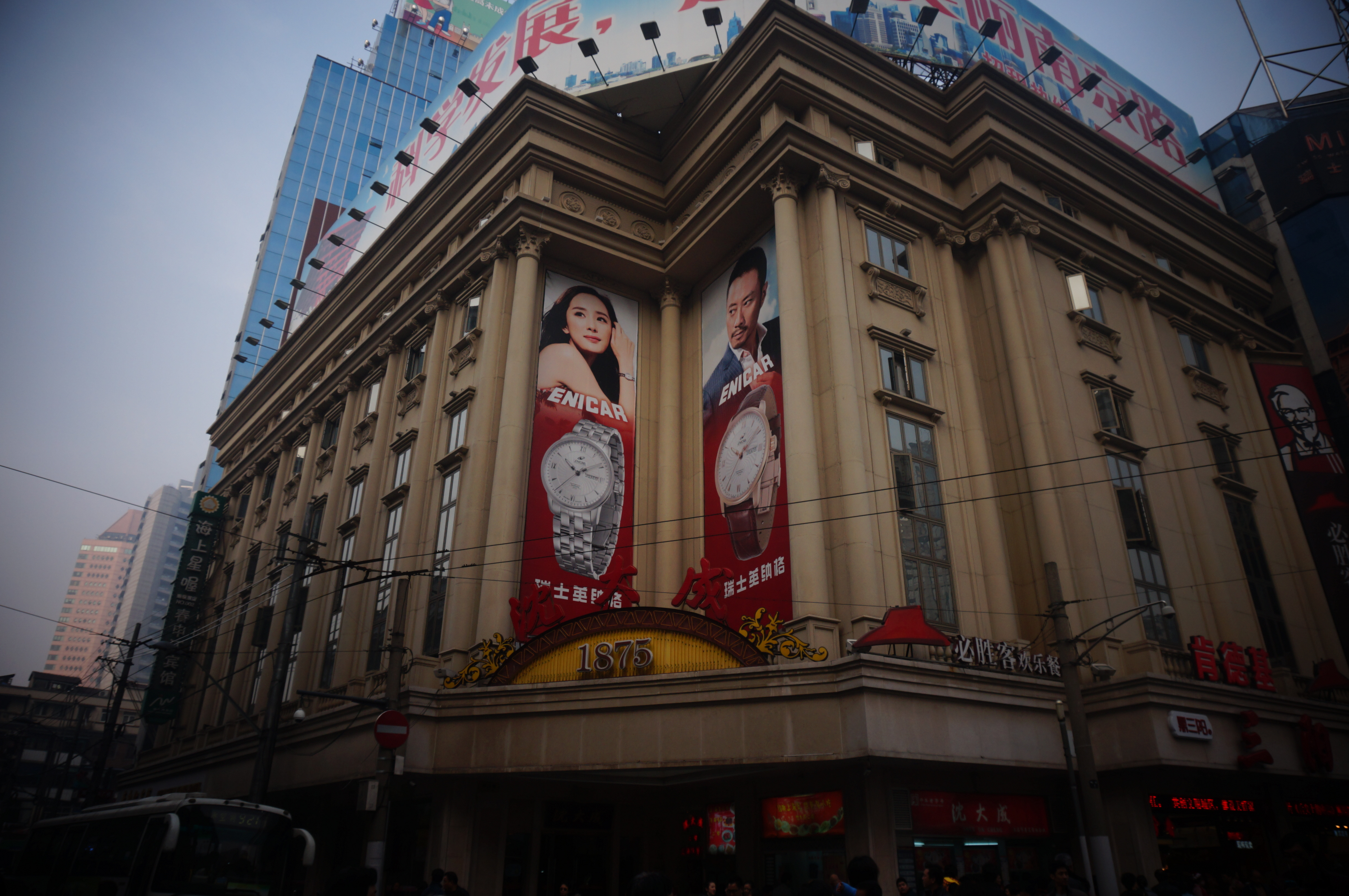 Shen Da Cheng Restuarant on Nanjing Road